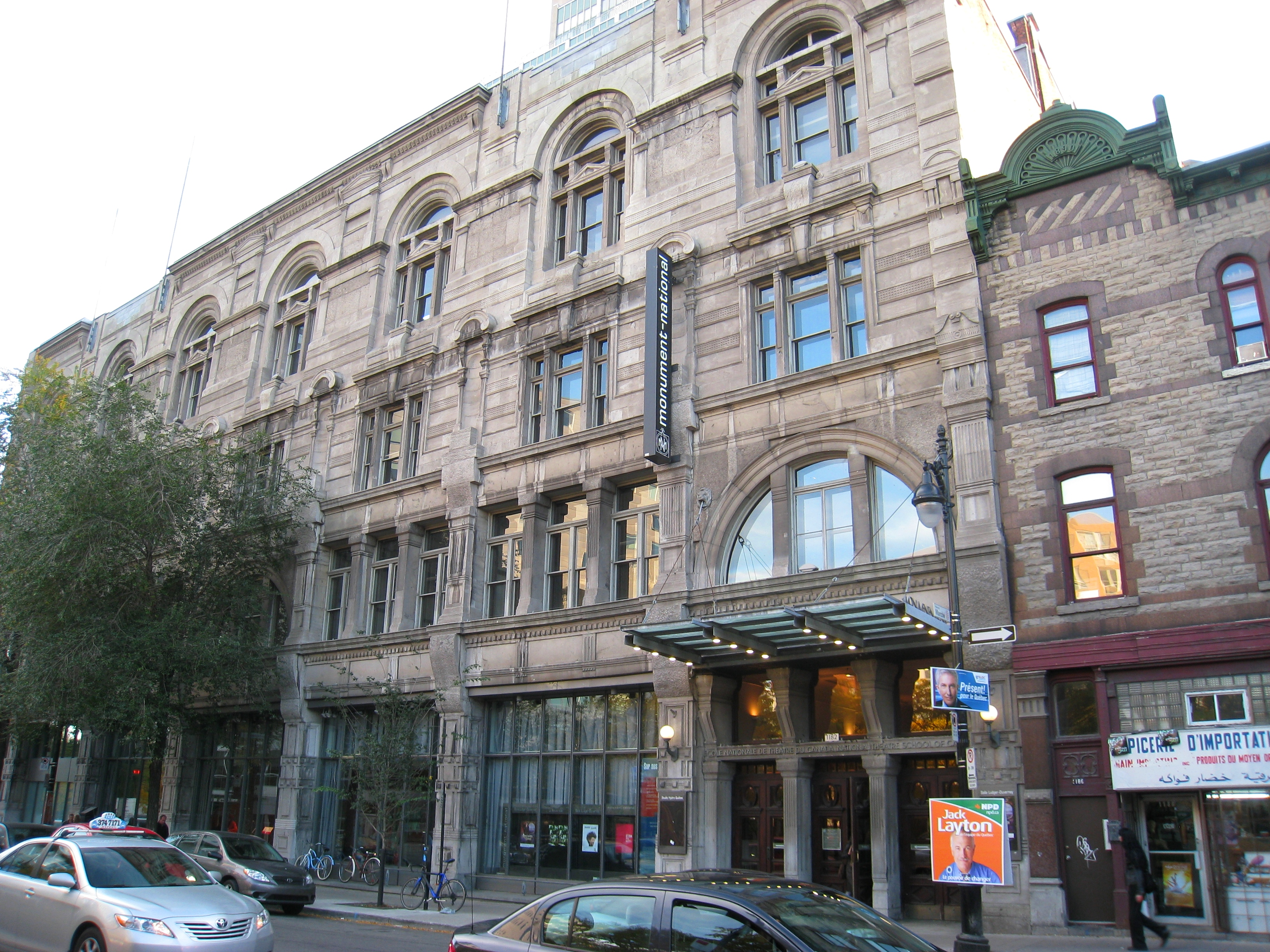 Facade of the Monument National, 1182 St Laurent, Montreal, PQ, Canada. I took this photograph.